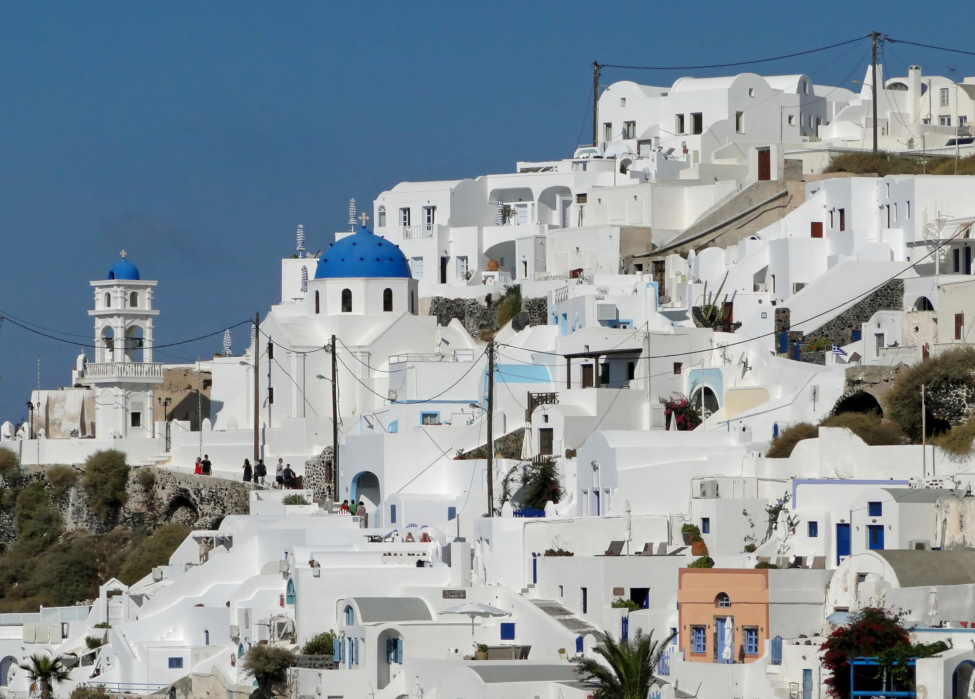 View of Imerovigli, Santorini, Greece